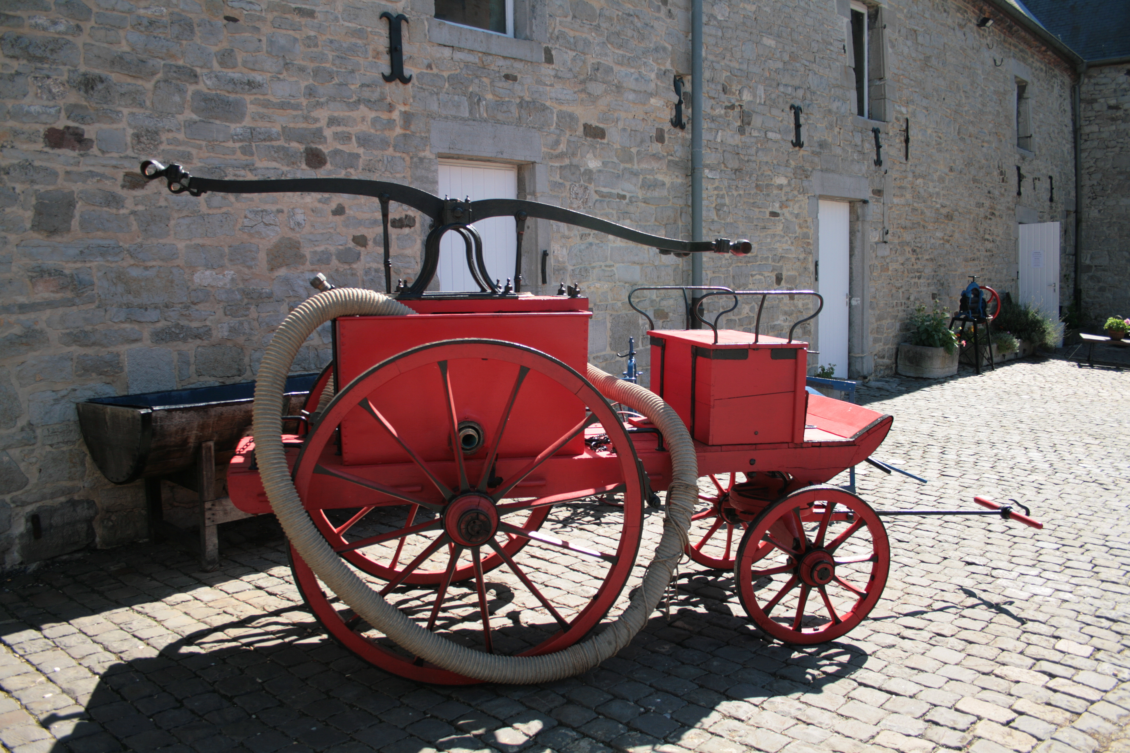 Antique horse-drawn fire engine of the ecomuseum of Treignes (Belgium).